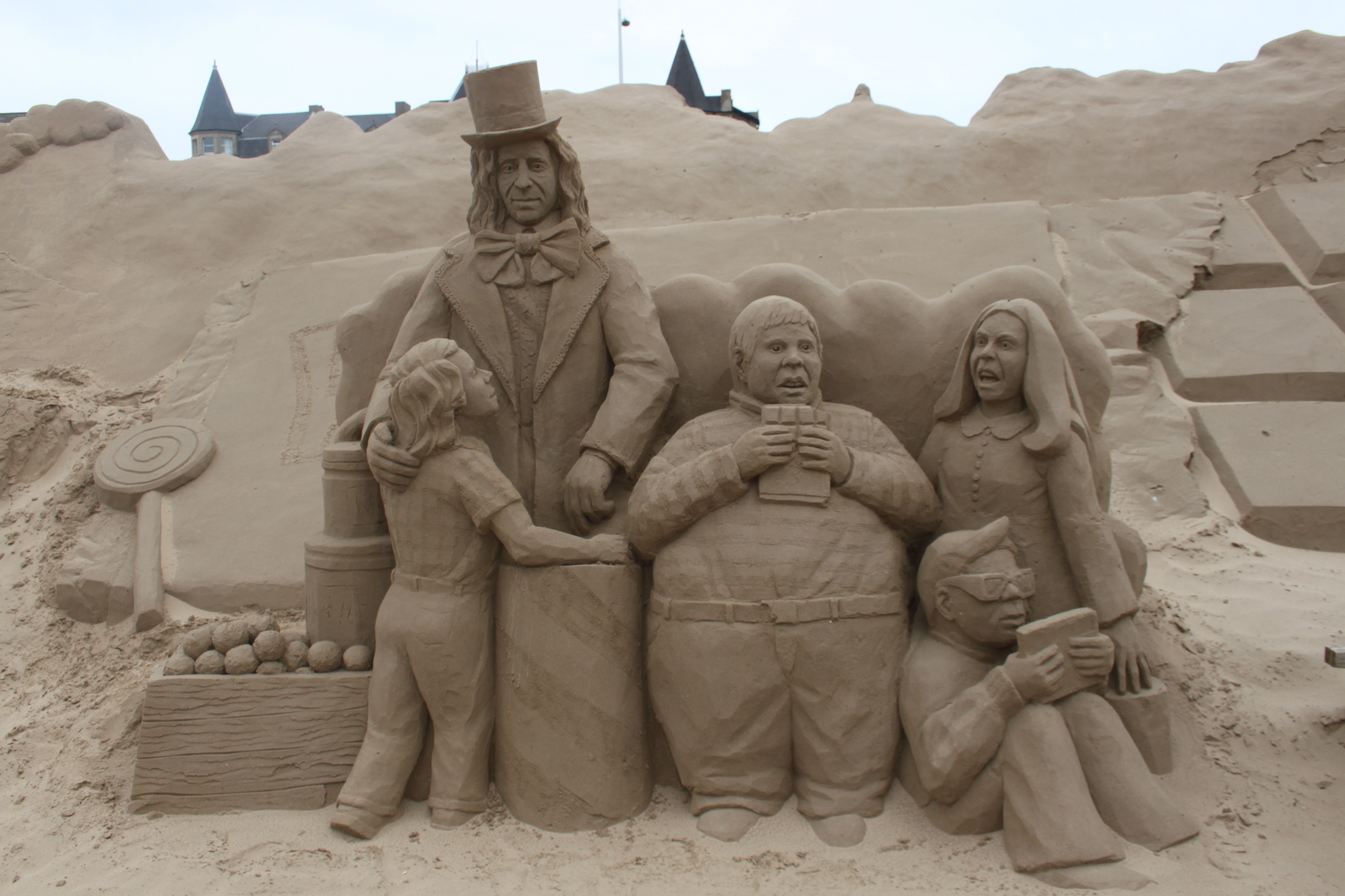 Sand Sculpture at Weston super Mare of Charlie and the Chocolate Factory by Anique Kuizenga